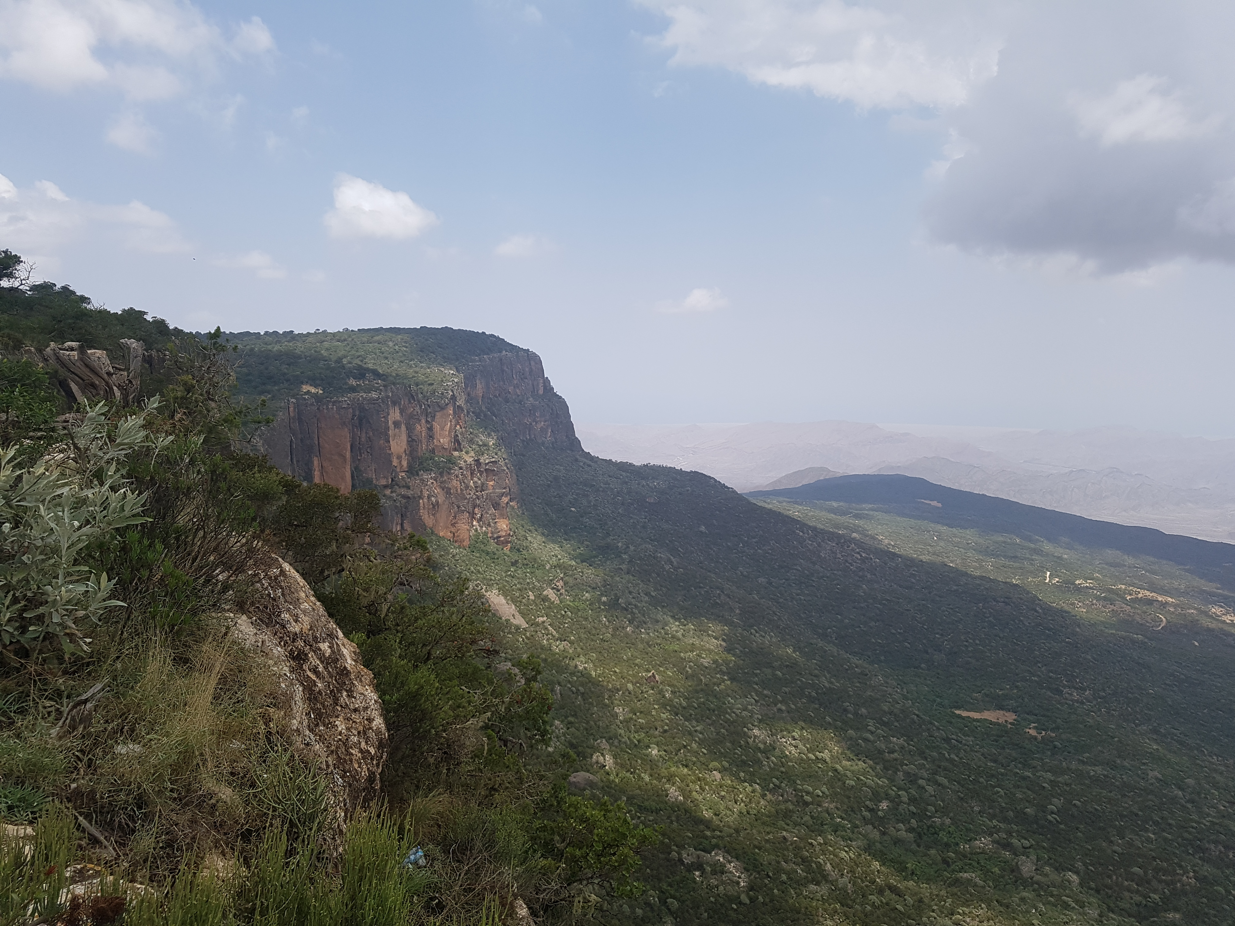 This is an image with the theme "Africa on the Move or Transport" from: Somalia